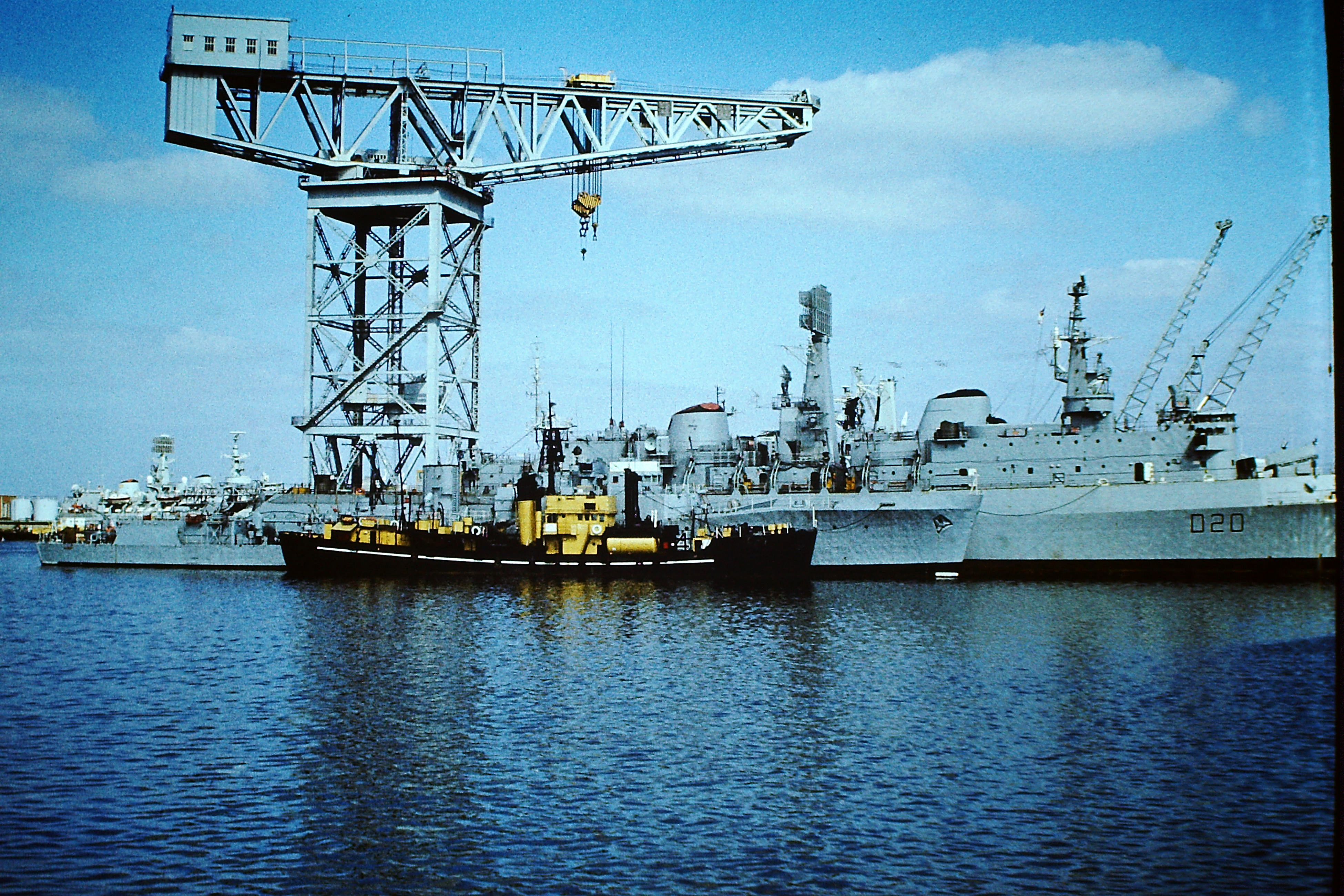 The last active Type 14 "Captain" or "Blackwood" Class anti-submarine frigate "HMS Dundas", 1,456 tons, launched 1953, commissioned 1956. The Type 14's were simple, cheap warships designed to be mass produced if the Cold War ever turned hot and effectively fulfilled the same role as the "Flower" Class corvettes of WWII. At the Portsmouth Navy Day, 08/80. Scanned slide.